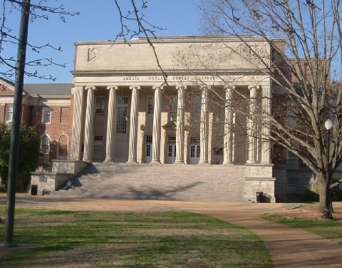 View of the Quad and Amelia Gayle Gorgas Library on the campus of the University of Alabama, Tuscaloosa, Alabama, USA